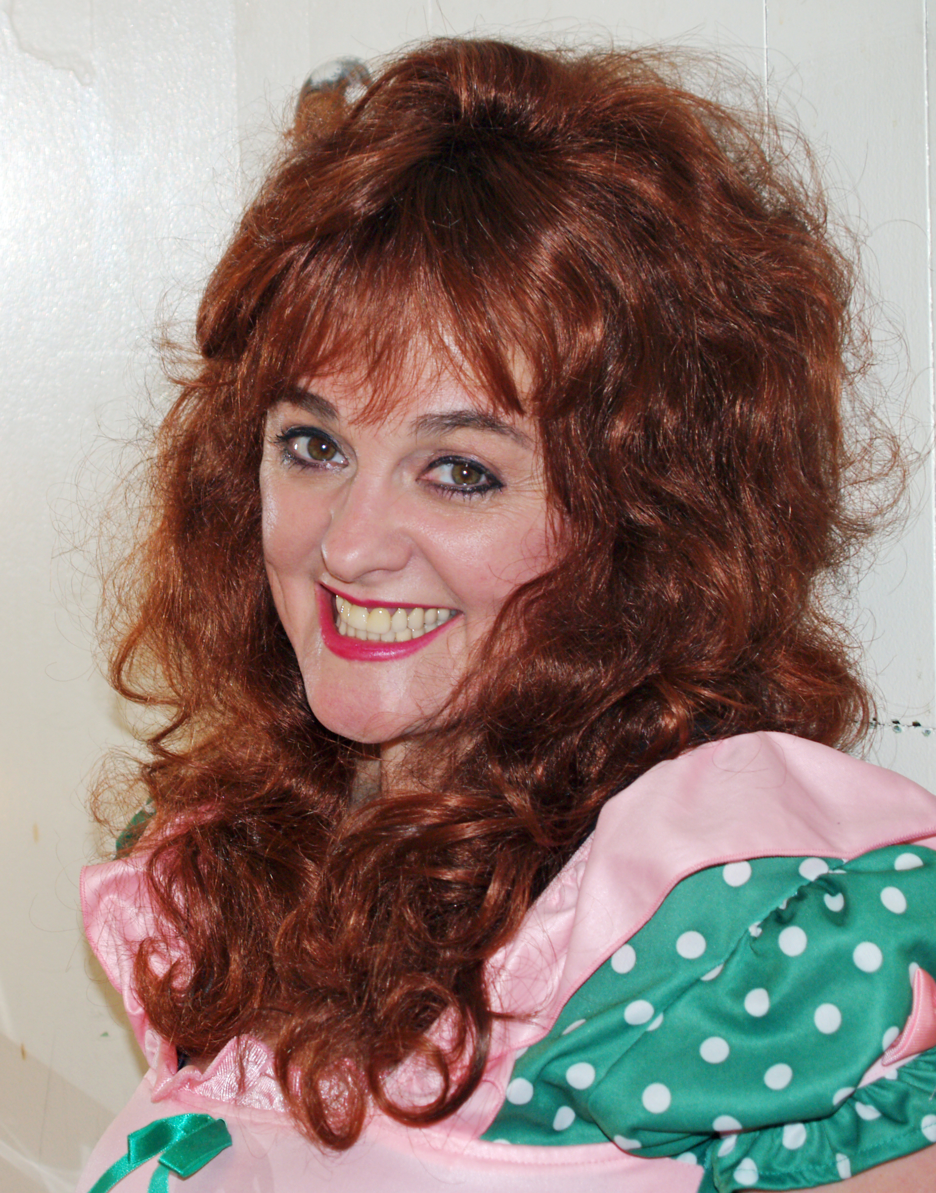 Julie Brown at Joe's Public Theater in New York City, February 2008.